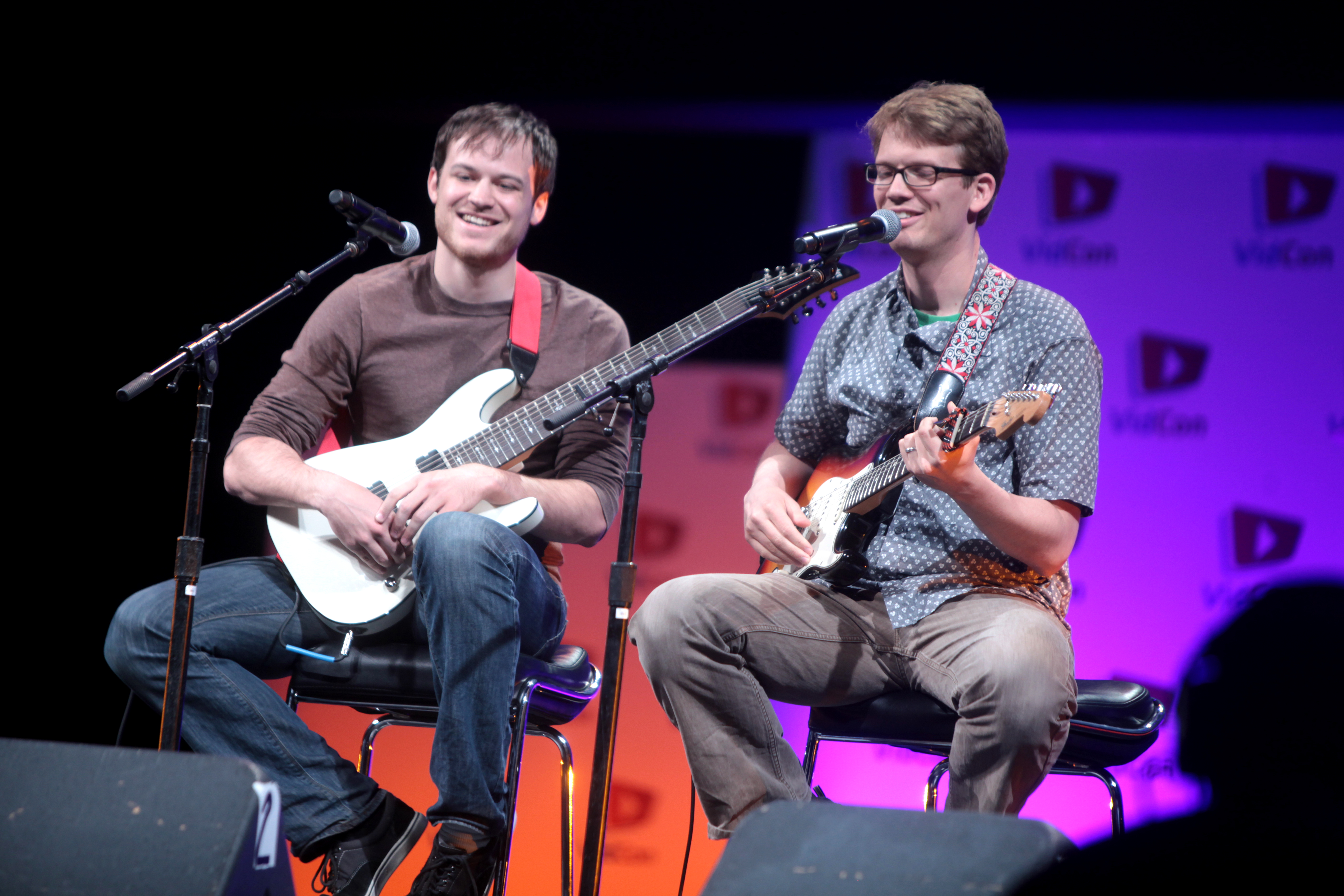 Hank Green performing at the 2014 VidCon at the Anaheim Convention Center in Anaheim, California.